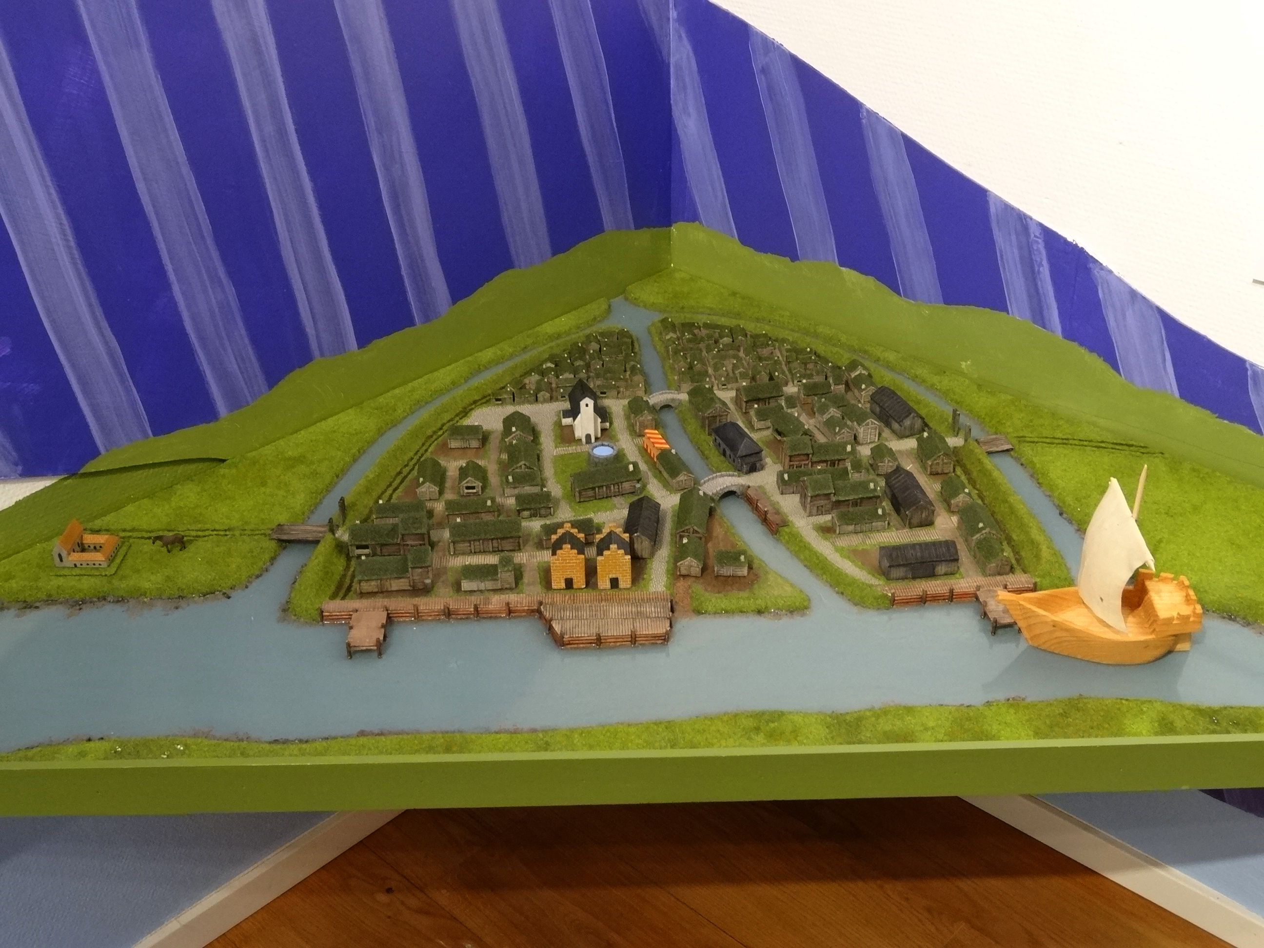 Playmodel of the swedish town Nya Lödöse, from the exhibition "The walking city". The houses are hold in place by magnets, and can be rearranged by the visitors.